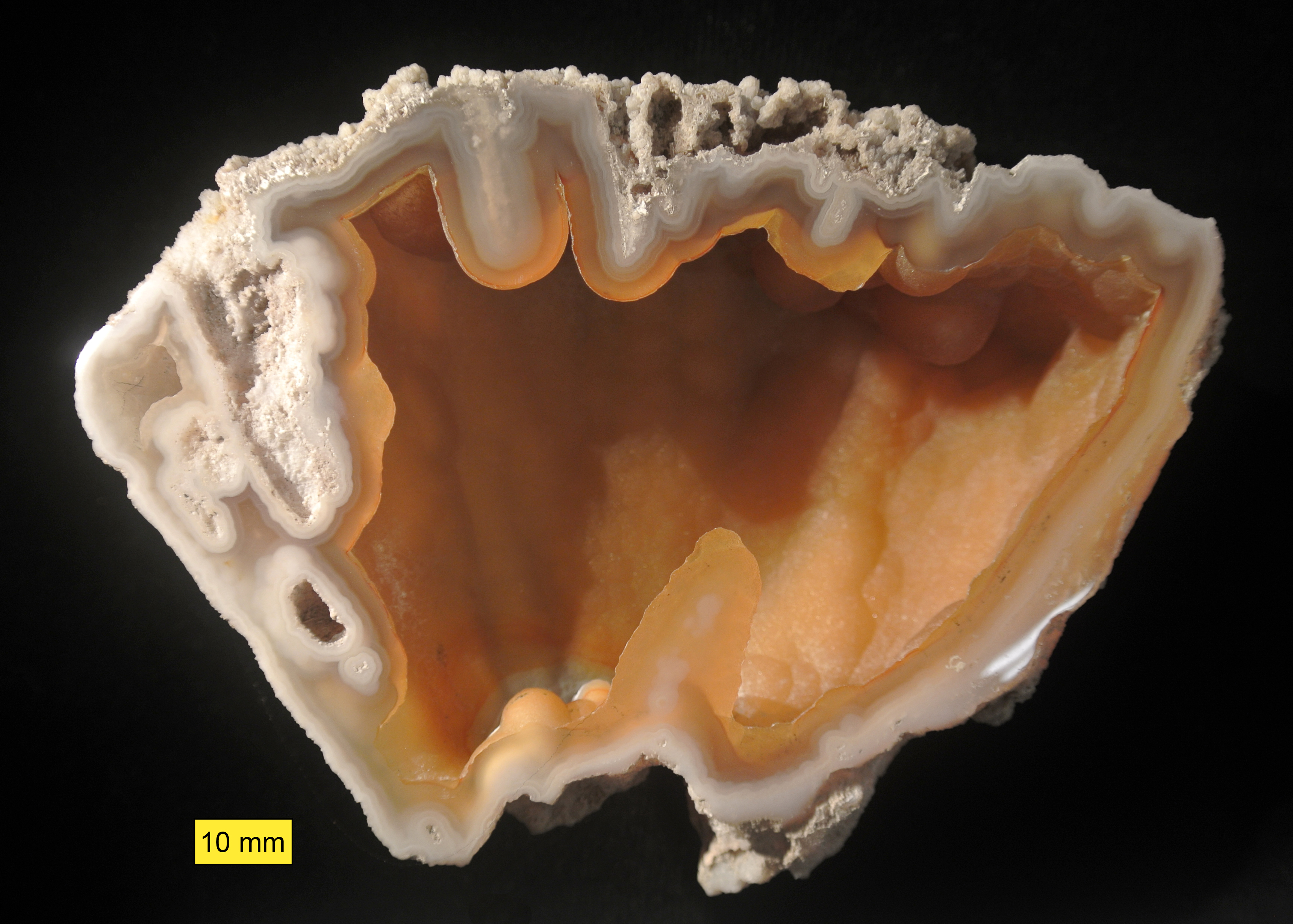 Agatized coral from the Hawthorn Group (Oligocene-Miocene) of Florida.